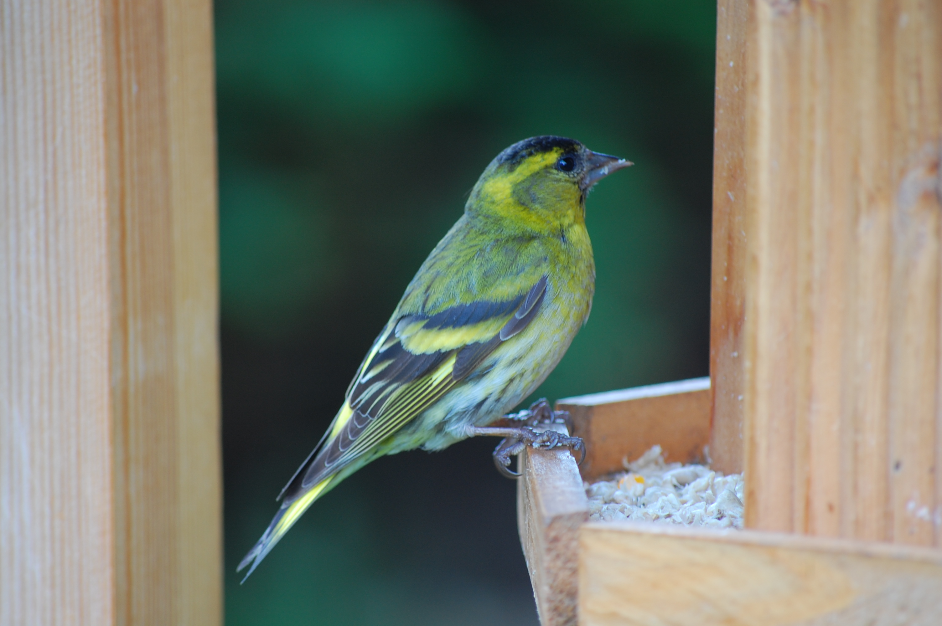 Photograph of adult male siskin (carduelis spinus) taken in Helensburgh, Scotland